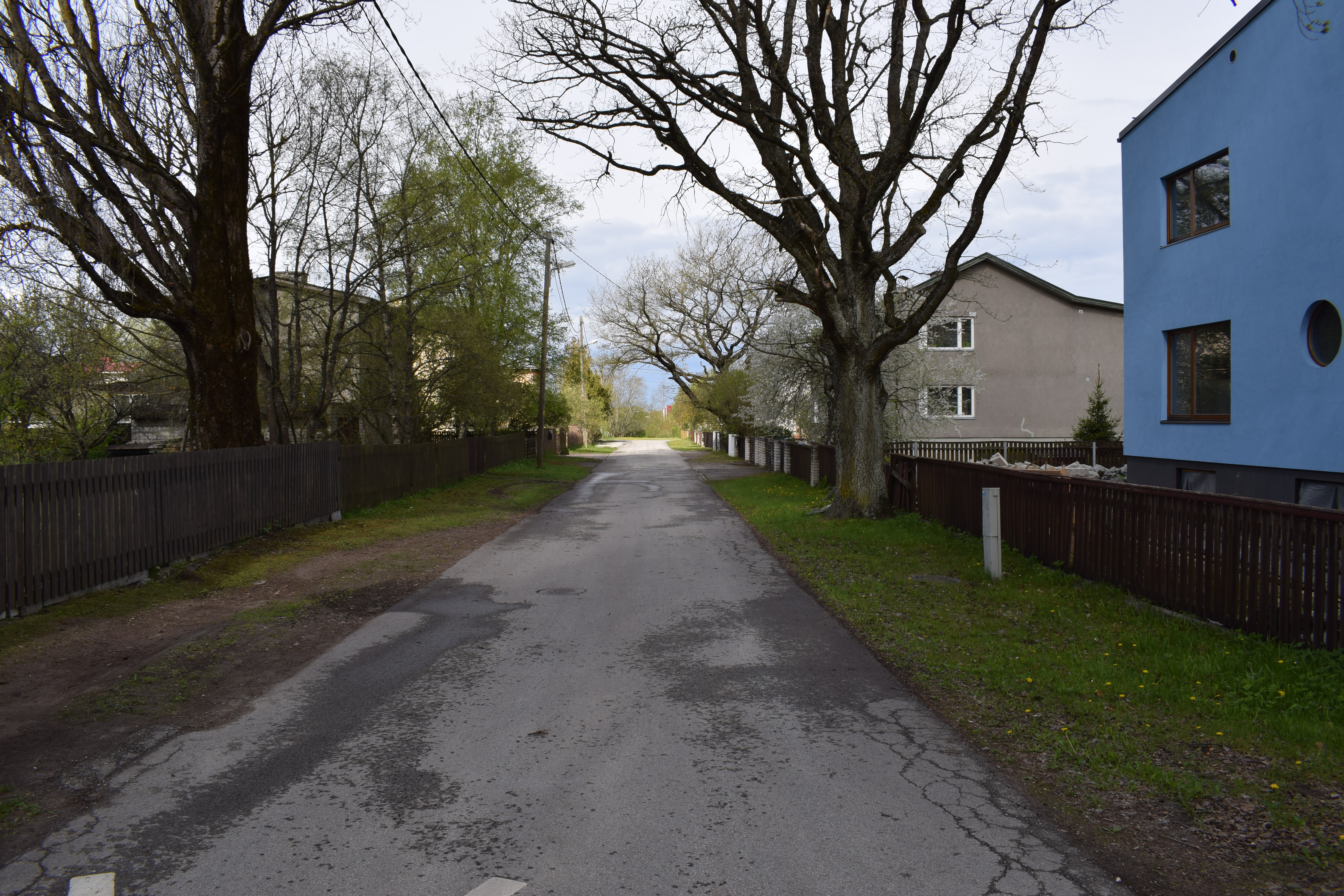 Jaaniku street